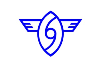 Flag of Yame Fukuoka